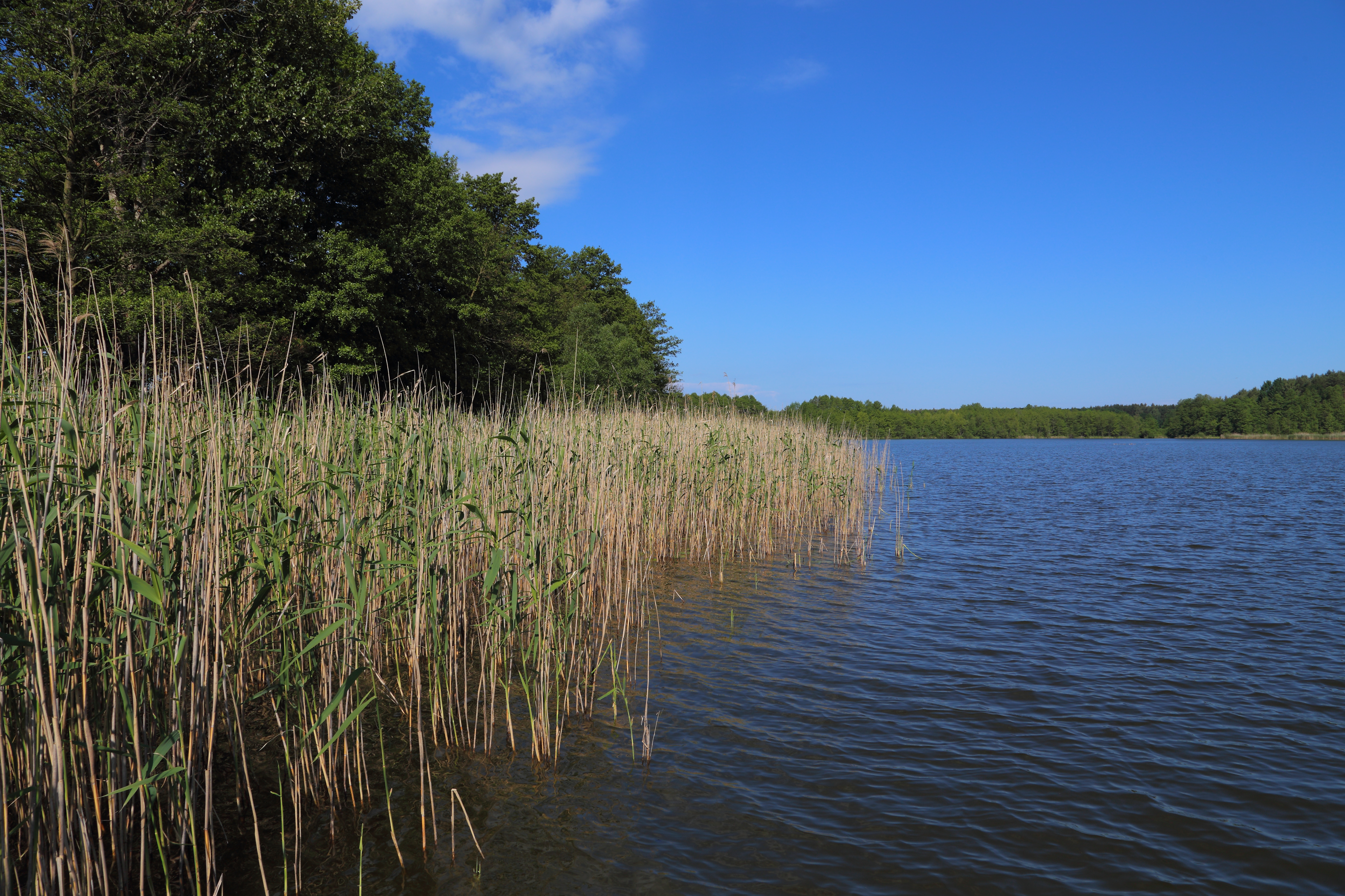 Lake Byhlen (Byhlener See) near Byhlen, district of Byhleguhre-Byhlen, Landkreis Dahme-Spreewald, Brandenburg, Germany.